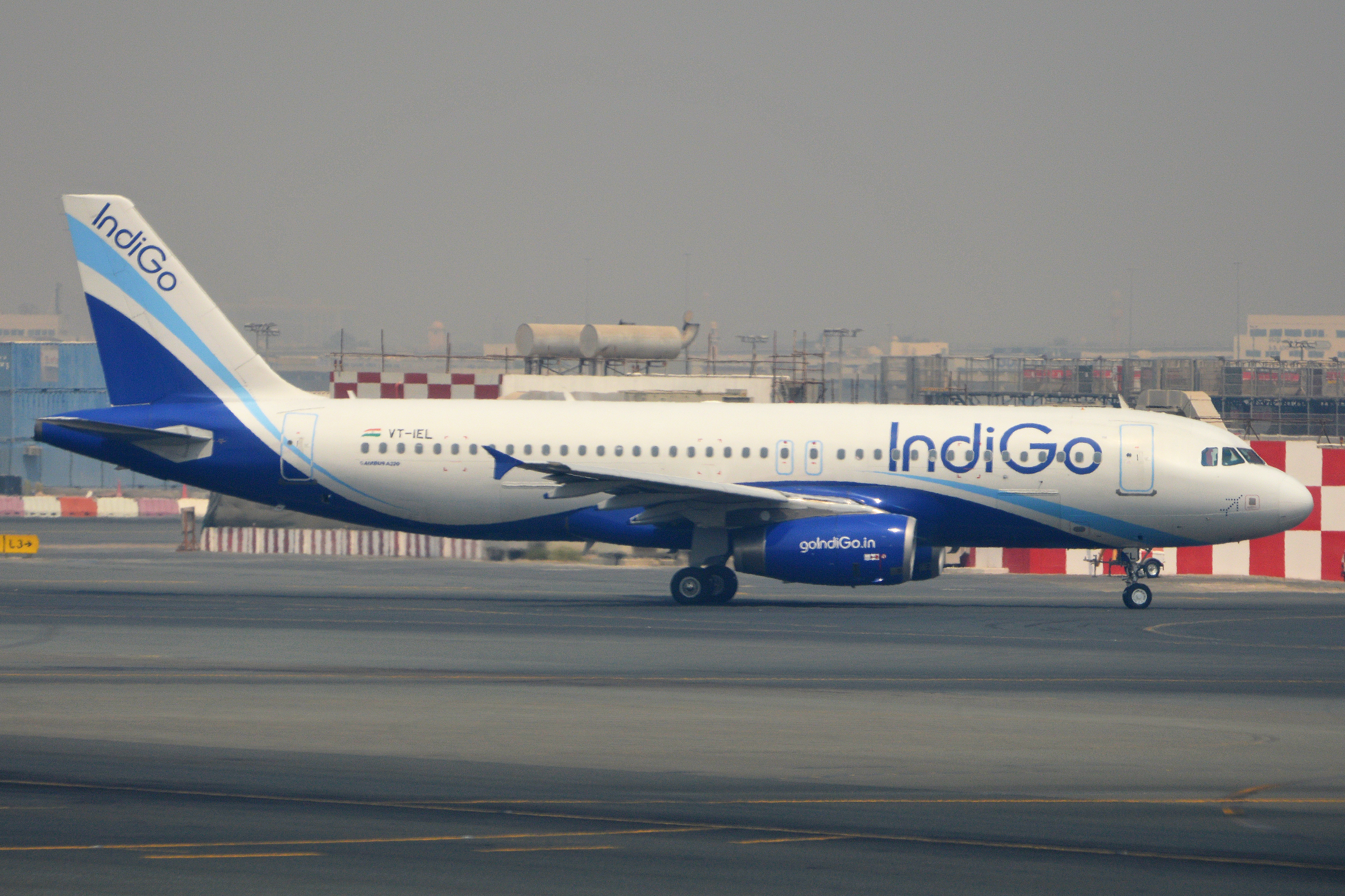 c/n 4888. Built 2011. Seen taxiing out at Dubai International Airport (DXB), United Arab Emirates. 17-9-2015. Taken from my seat in Virgin Atlantic A330 'G-VINE'.